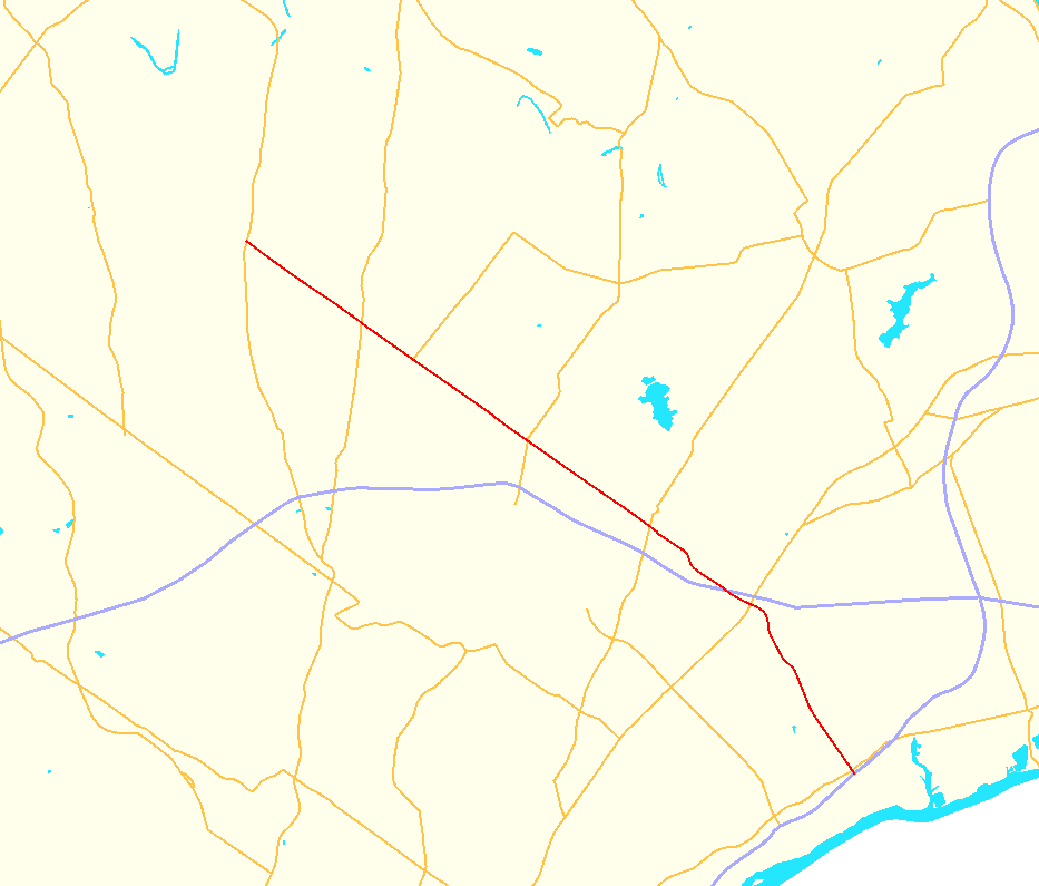 Map of Pennsylvania Route 132